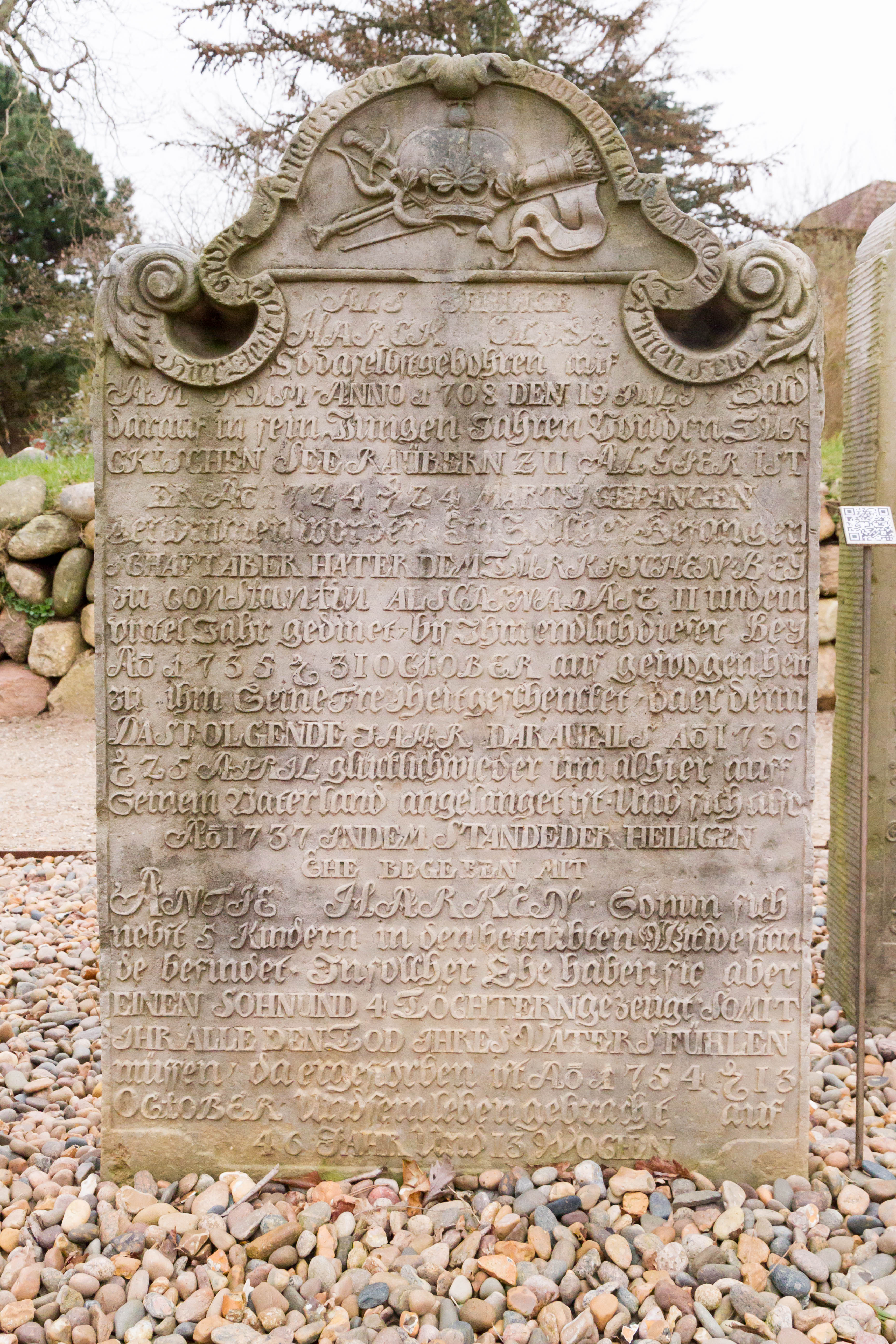 The making of this document was supported by the Community-Budget of Wikimedia Germany. Gravestones in Amrum